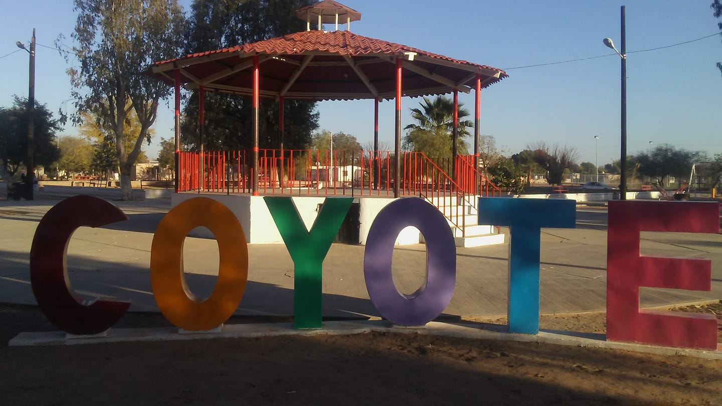 Letrero Plaza Pública Ejido El Coyote